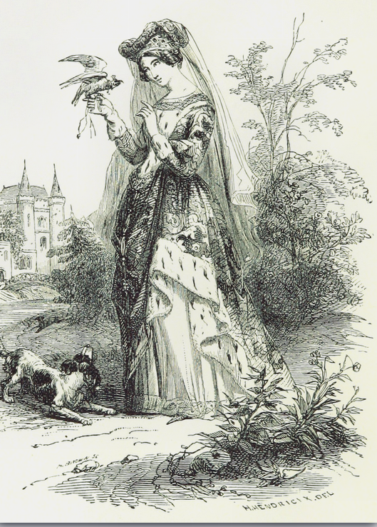 Joan, called of Constantinople (1194 – 1244) was countess of Flanders and Hainaut.